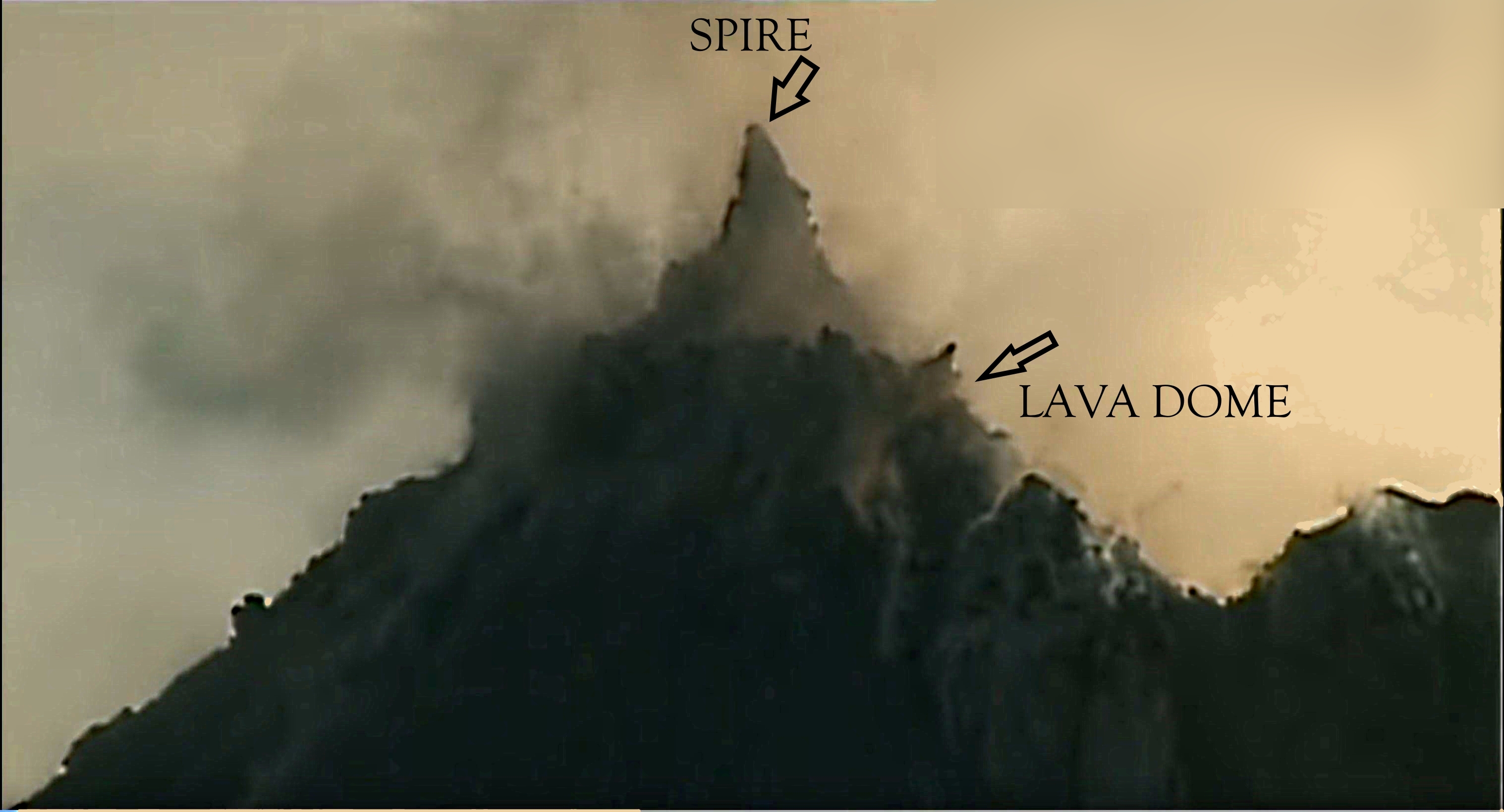 A Spire Comprised of lava that has formed on the Soufriere Hills Volcano In 1997